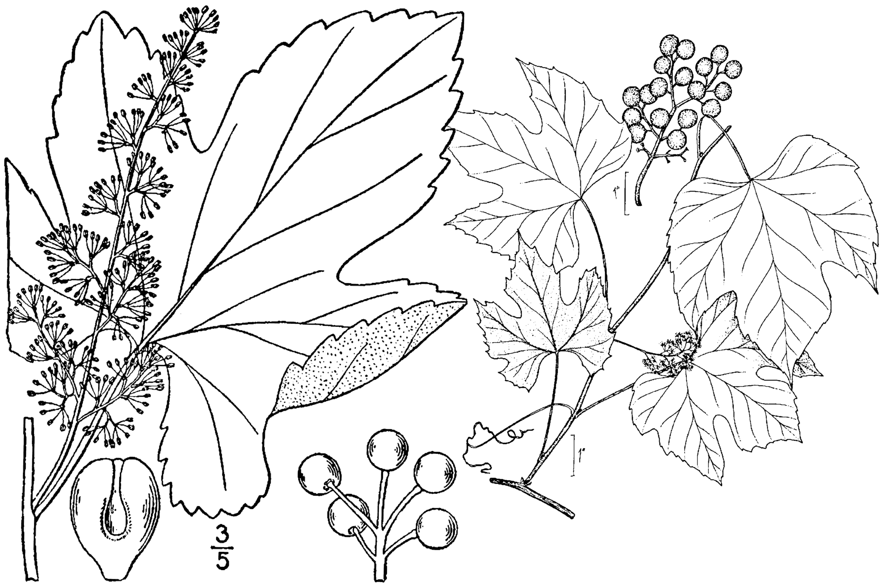 Vitis aestivalis Michx. (summer grape)